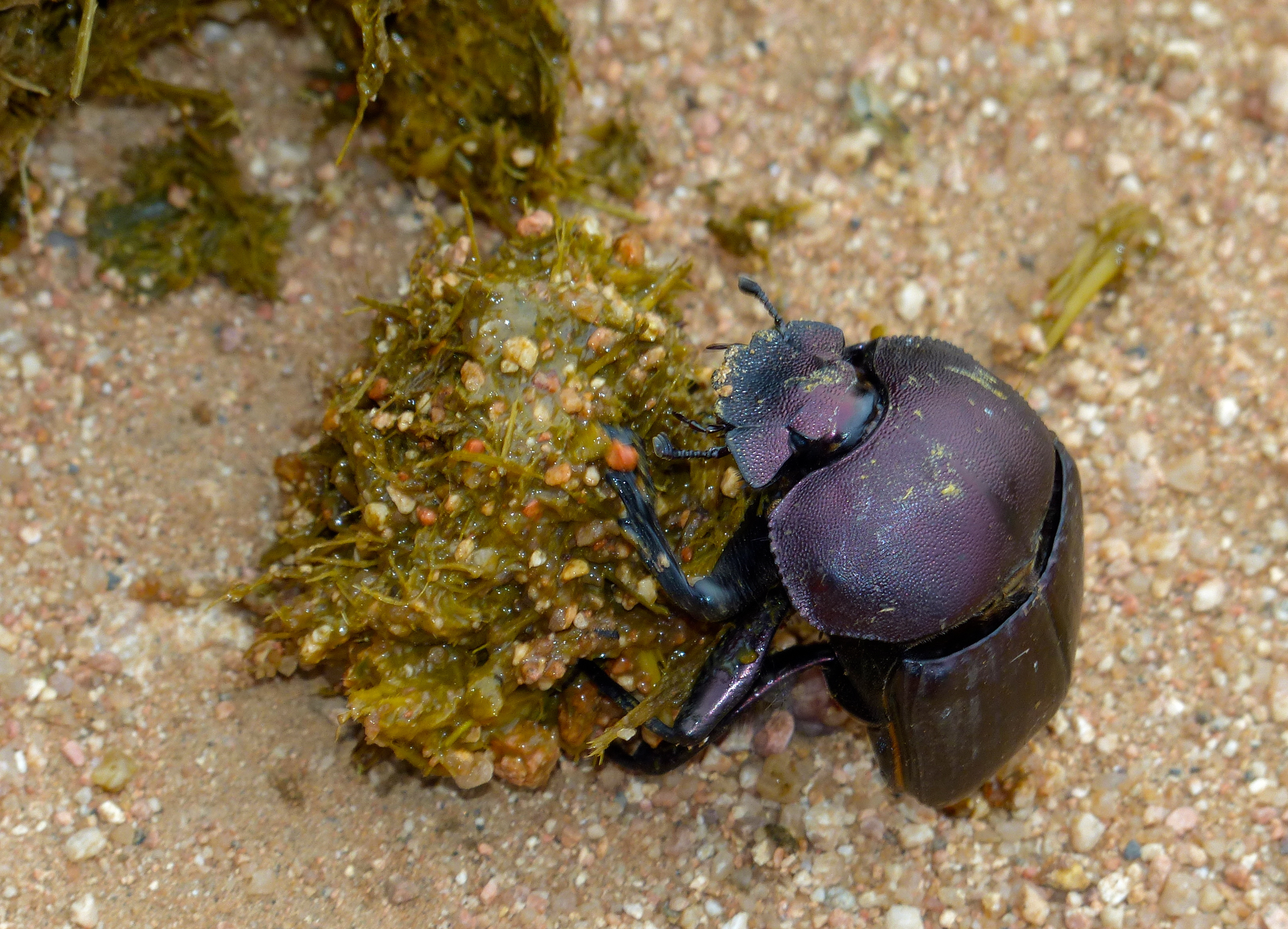 Rabelais Loop, East of Orpen, Kruger NP, SOUTH AFRICA